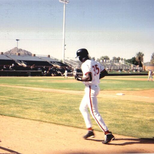 Picture of Michael Jordan which I took when he was in the Scottsdale Scorpions